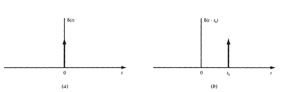 Figura 3. (a) Sinjali impuls njësi; (b) Sinjali impuls njësi i zhvendosur